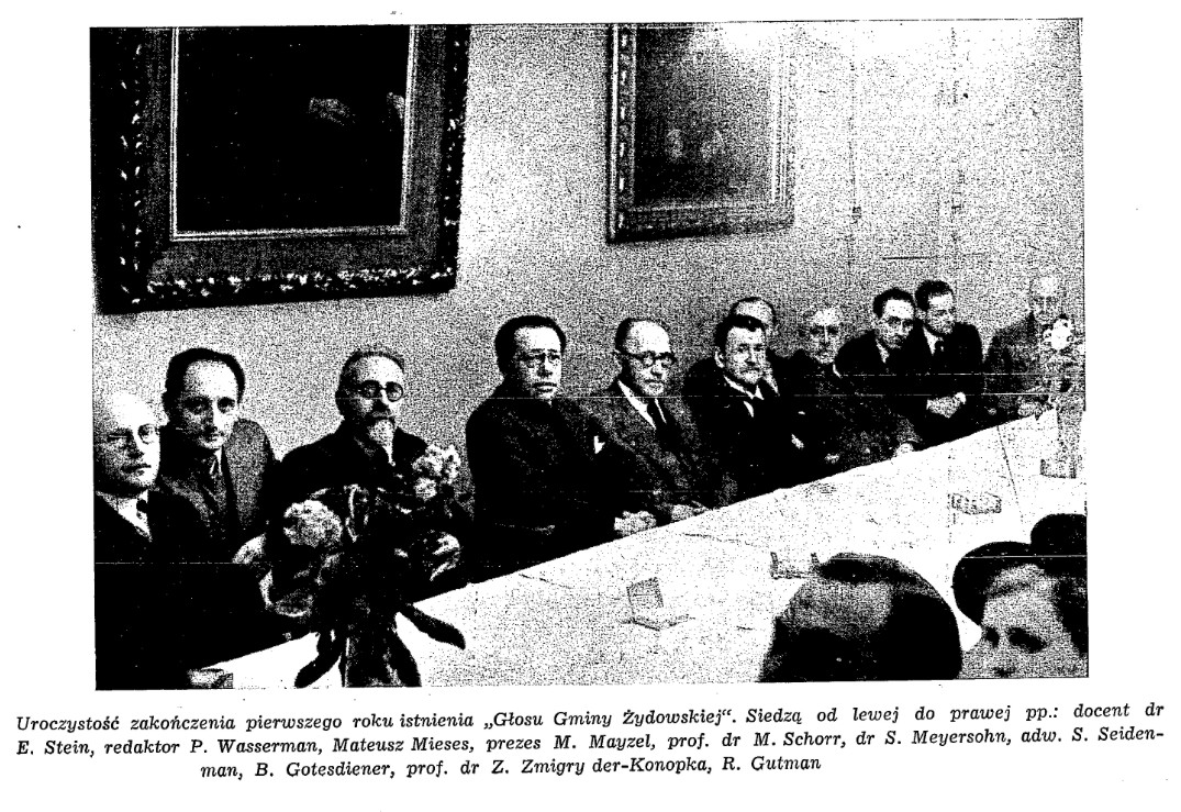 Meeting in the first anniversary of creation "Głos Gminy Żydowskiej" (i.e. "Jewish Community Voice") monthly. Visible: Mateusz Mieses (third from left), Moses Schorr (fifth from left) Zdzisław Żmigryder-Konopka (ninth from left)